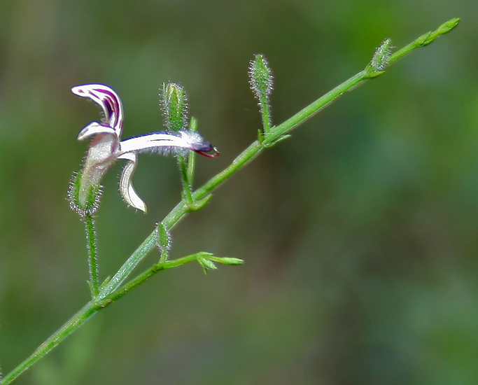 Kalpa/ Kalmegh/ Maha-tita/ Bhui-neem/ Sirunangai Andrographis paniculata in Narsapur, Andhra Pradesh, India.